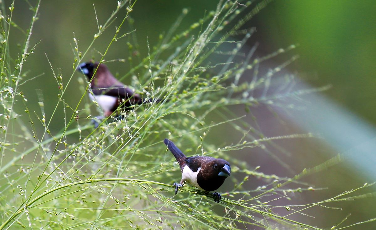 White-rumped Munias at Bodhinagala Forest Reserve, Sri Lanka.